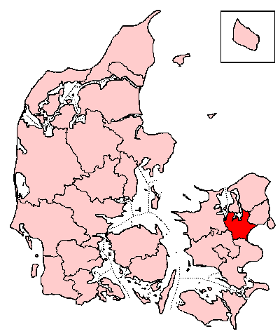 Map of Roskilde County 1793-1808